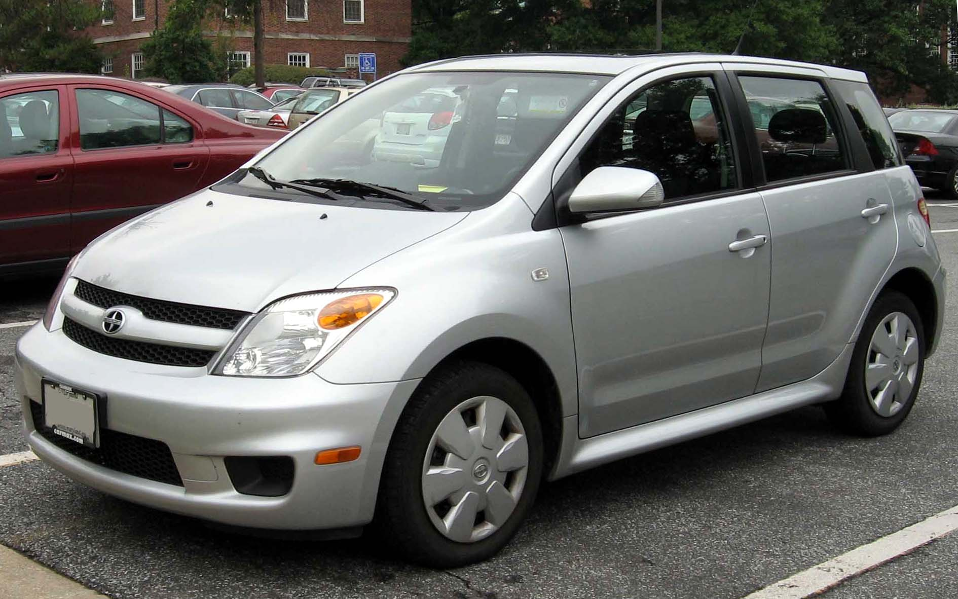 2006 Scion xA photographed in USA.